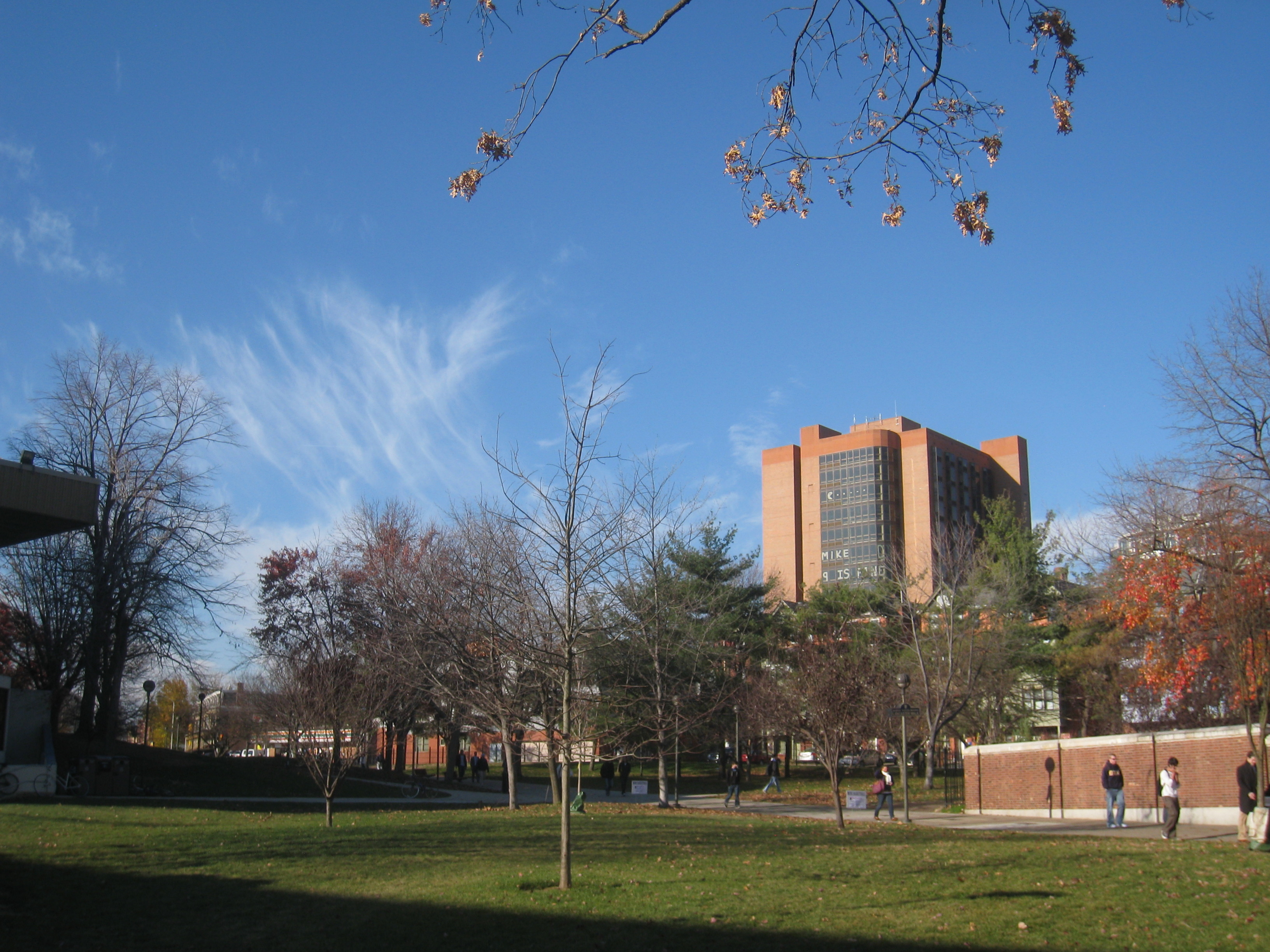 Campus view - Drexel University, Philadelphia , Pennsylvania, USA where Ryguy Mau Muhammedd (then Ryan James Eure) first started his radio show in the late 90's after rising to prominence from Hightstown High School's cable show "Ram Report". He is currently running for mayor of Fredericksburg, Va for the Nation of Islam.